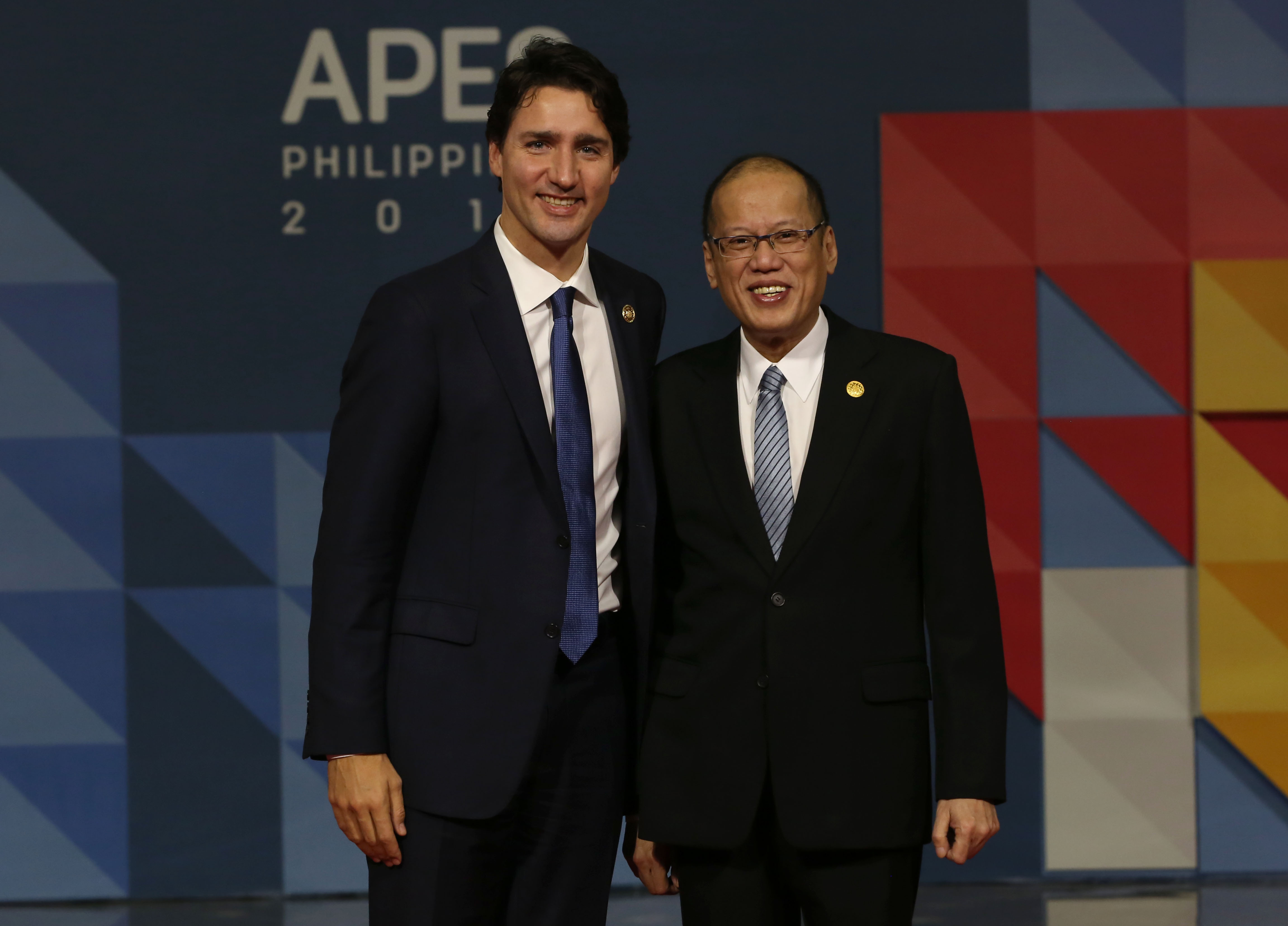 APEC 2015 chairman President Benigno S. Aquino III greets Canadian Prime Minister Justin Trudeau upon arrival for the Asia-Pacific Economic Cooperation (APEC) Leaders’ Meeting (AELM) Family Photo at the Main Lobby of the Philippine International Convention Center (PICC), Cultural Center of the Philippines complex in Pasay City on Thursday (November 19, 2015). Working with this year’s theme: “Building Inclusive Economies, Building a Better World.” (Photo by Benhur Arcayan / Malacañang Photo Bureau)